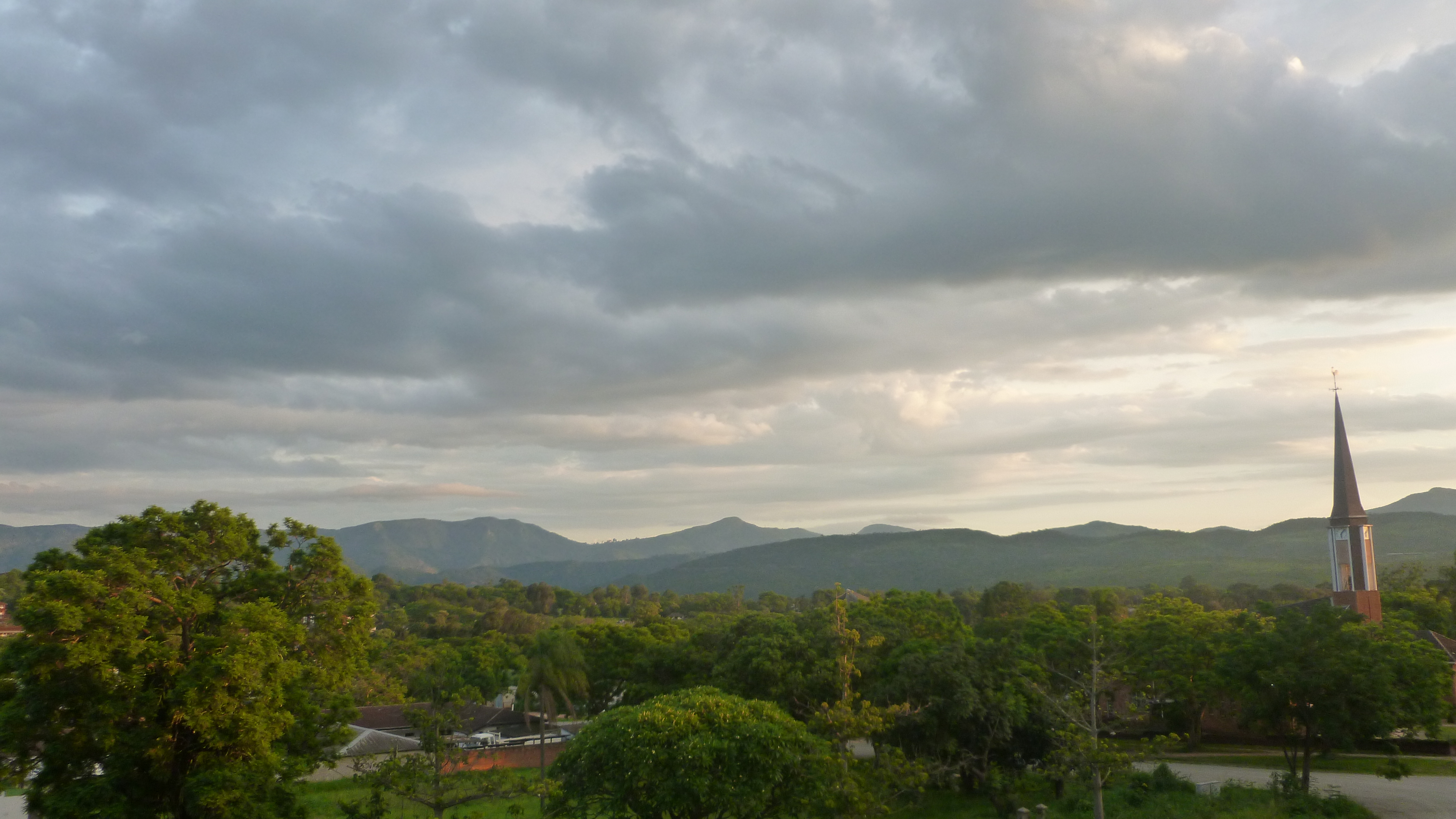 Mutare view east from the town looking towards Mozambique. Dutch Reform church seen on right.